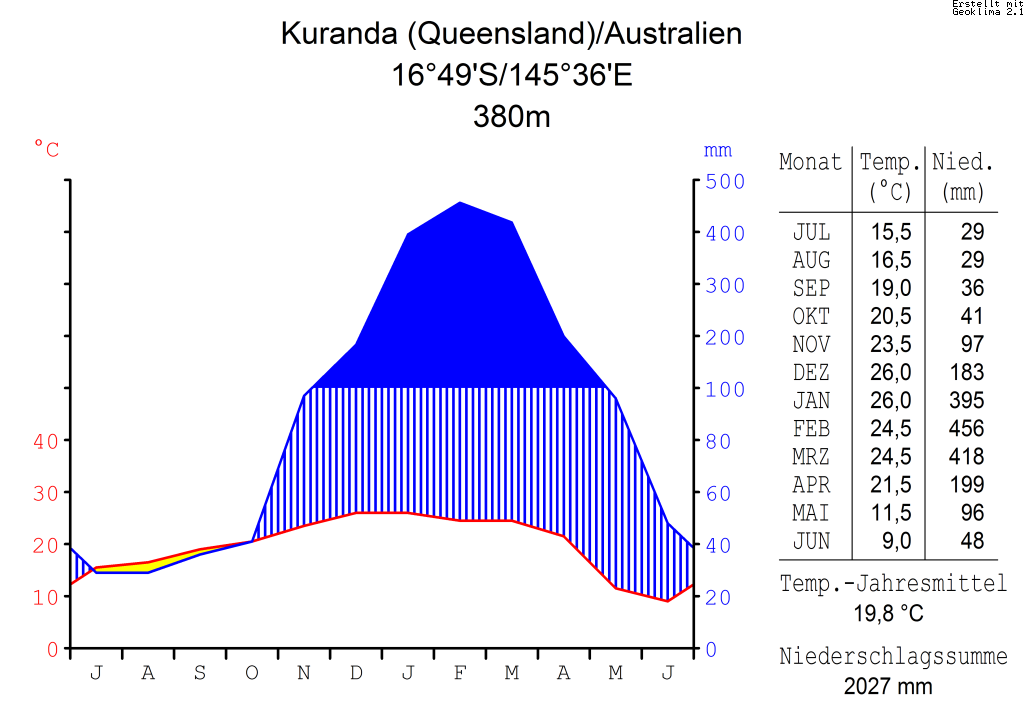 climate chart in the format by Walther and Lieth, metric, °Celsisus and millimeters, made with Geoklima 2.1 DateOctober 2006SourceSoftware: Geoklima 2.1 Website GeoklimaAuthorHedwig in WashingtonPermission (Reusing this file) Own work, attribution required (Multi-license with GFDL and Creative Commons CC-BY 2.5)